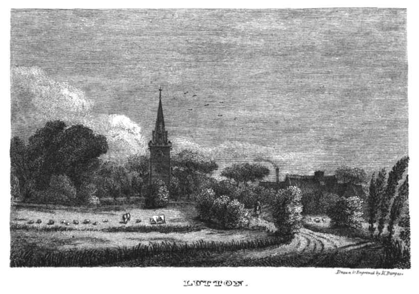 Copy of an image of St Nicholas Church, Lutton, Lincolnshire, England, from Marat, William (1816); The History of Lincolnshire, Topographical, Historical, and Descriptive, vol. 3, p. 67. Drawn and engraved by K. Burgess.